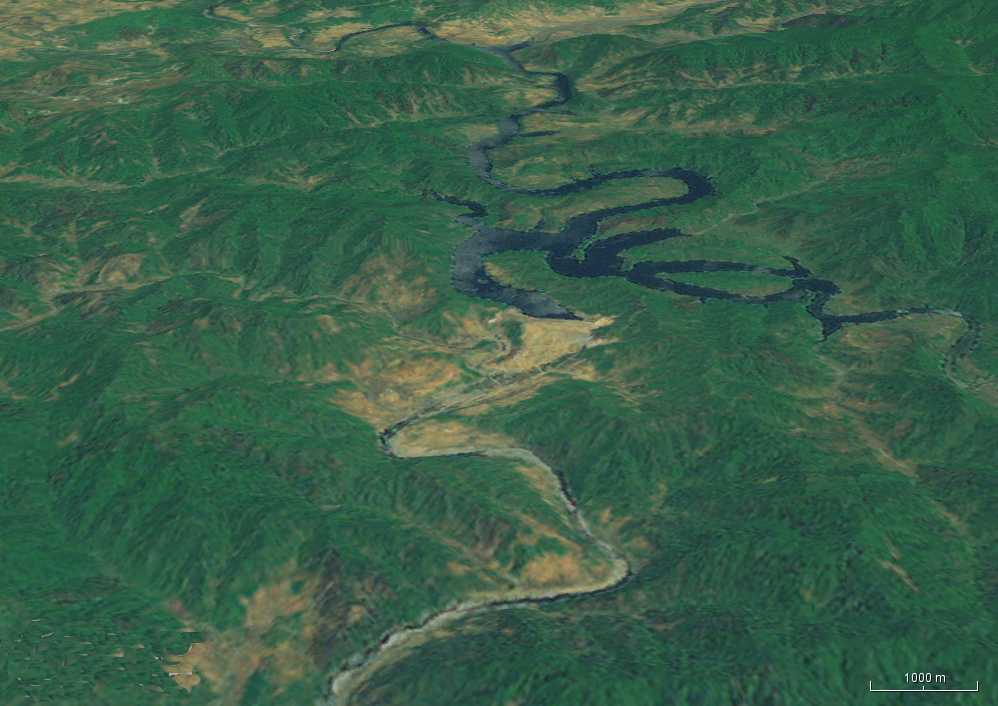 View of the Imnam Dam in North Korea as seen by the Landsat. Elevation model, 3/4 view looking at the dam.